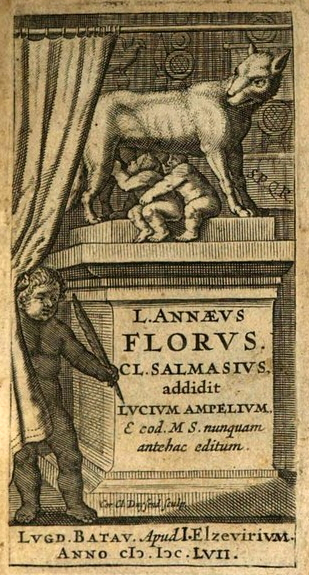 Lucius Annaeus Florus (74-130), (Epitome) Claudius Salmasius addidti Lucium Ampelium e cad. ms. nunquam antehac ed ..., by Lucius Annaeus Florus, Lucius Ampelius, 1657